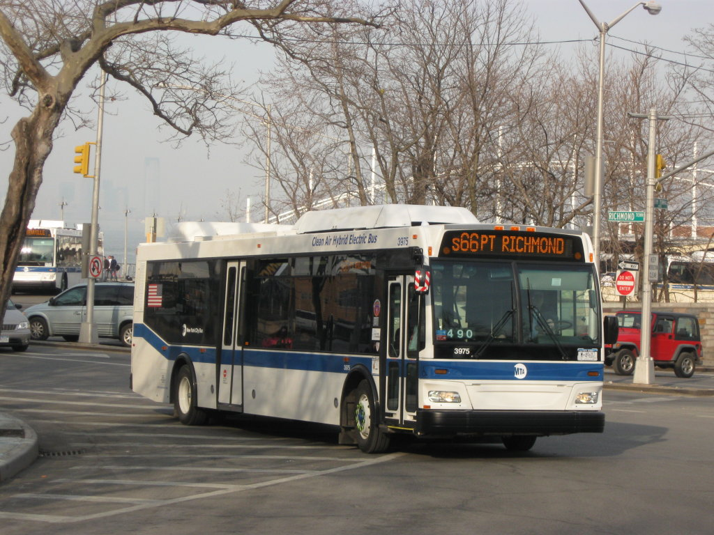 MTA New York City Bus #3975 on the S66 by St. George.